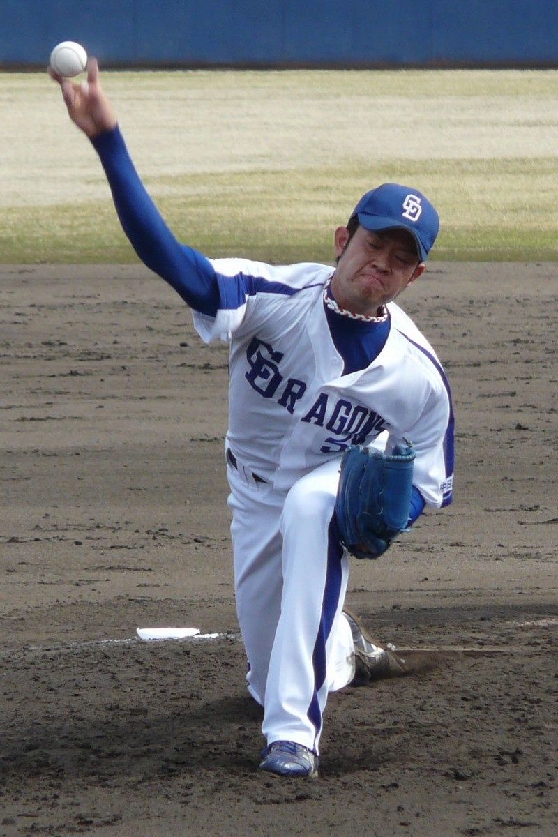 Kazuyuki Akasaka, pitcher of the Chunichi Dragons, at Nagoya Stadium